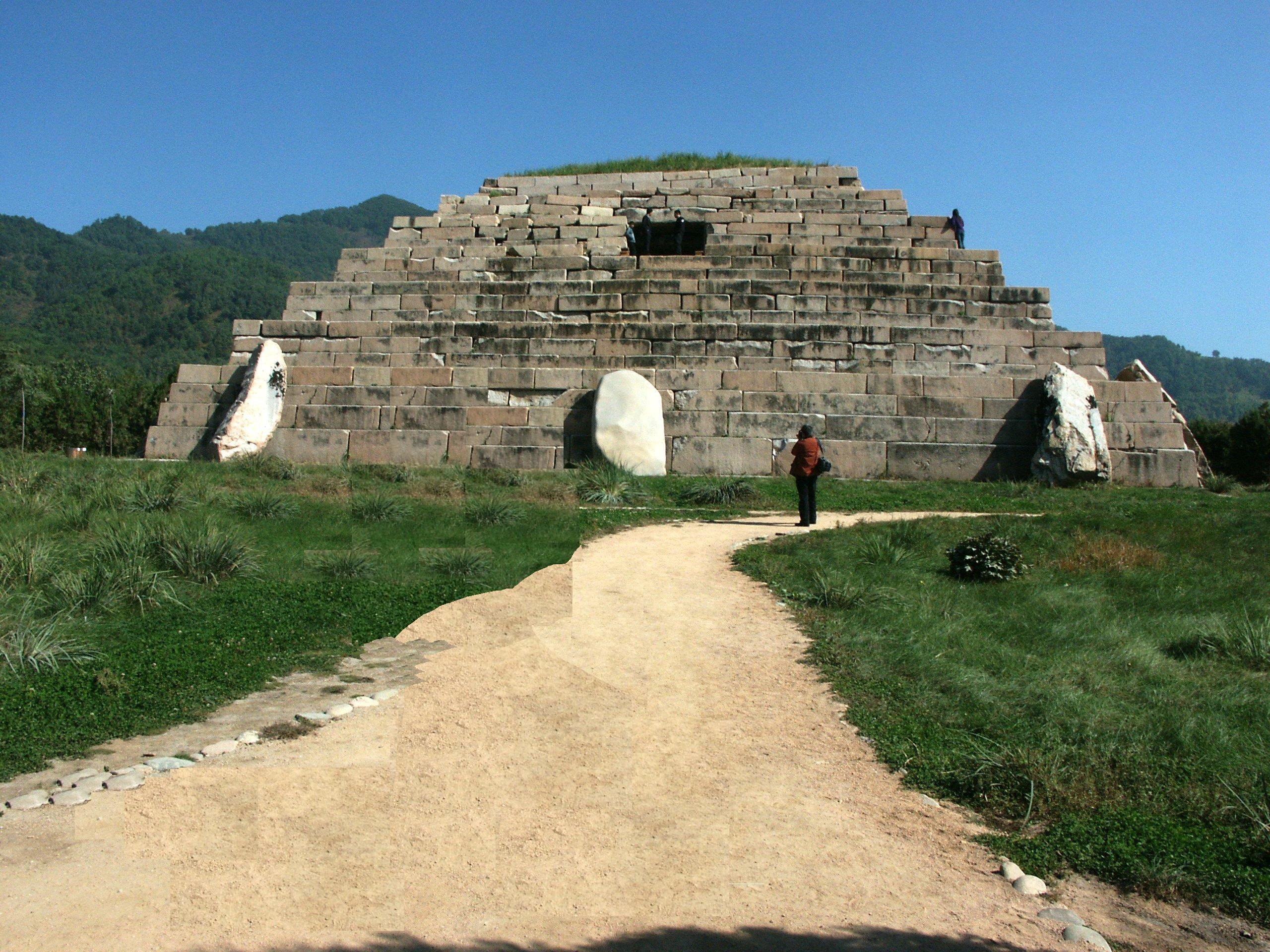 Tomb of the General (JianJunTen or the Pyramid of the East) located in Jian, China. The tomb was built by the Goguryeo Kingdom, one of the Three Kingdoms of Korea. (A derivative work).